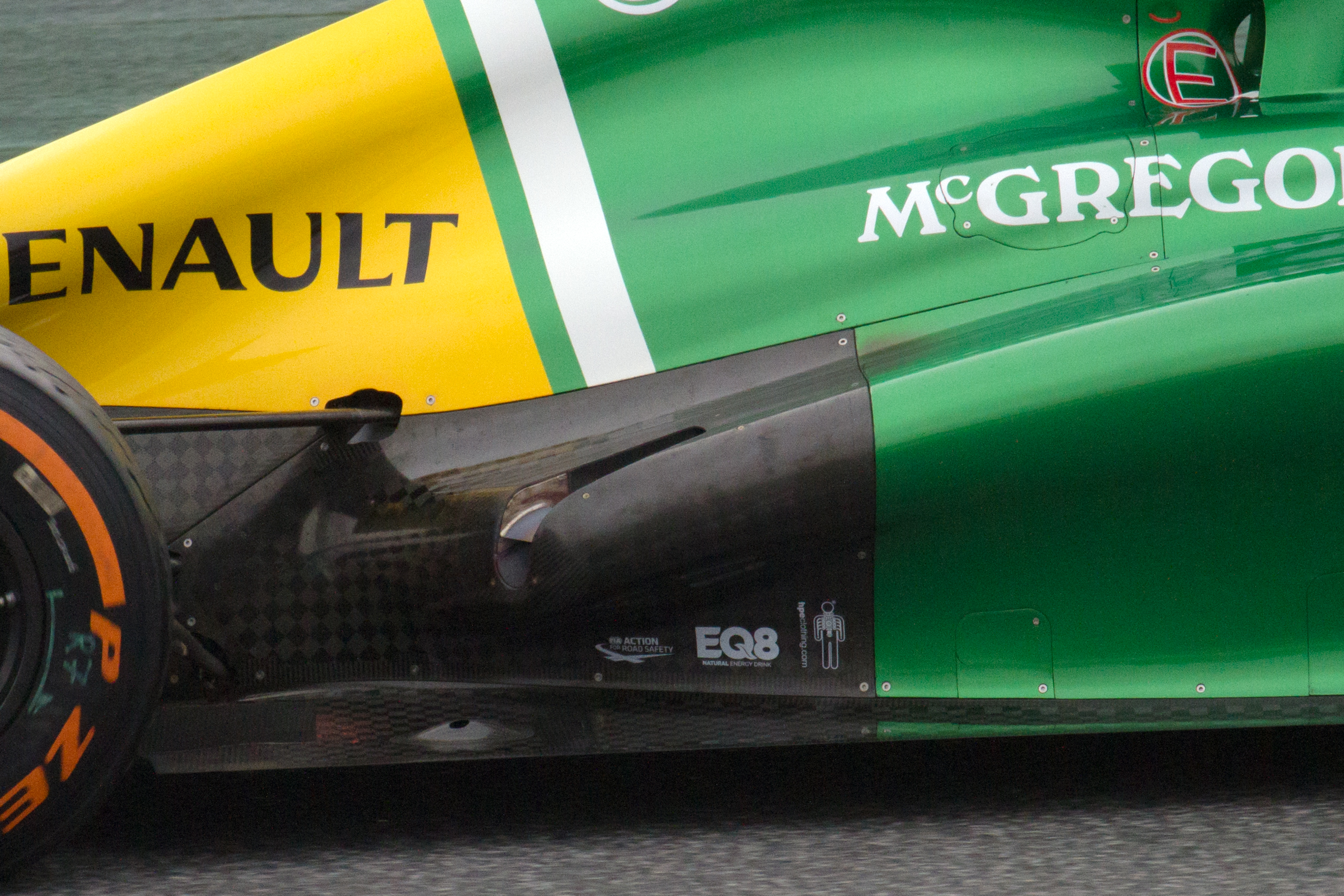 Formula One 2013 Catalonia test (19-22 February): Caterham CT03's exhaust channel with flow conditioner